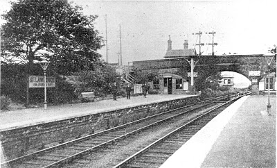 Looking towards Newington Bridge